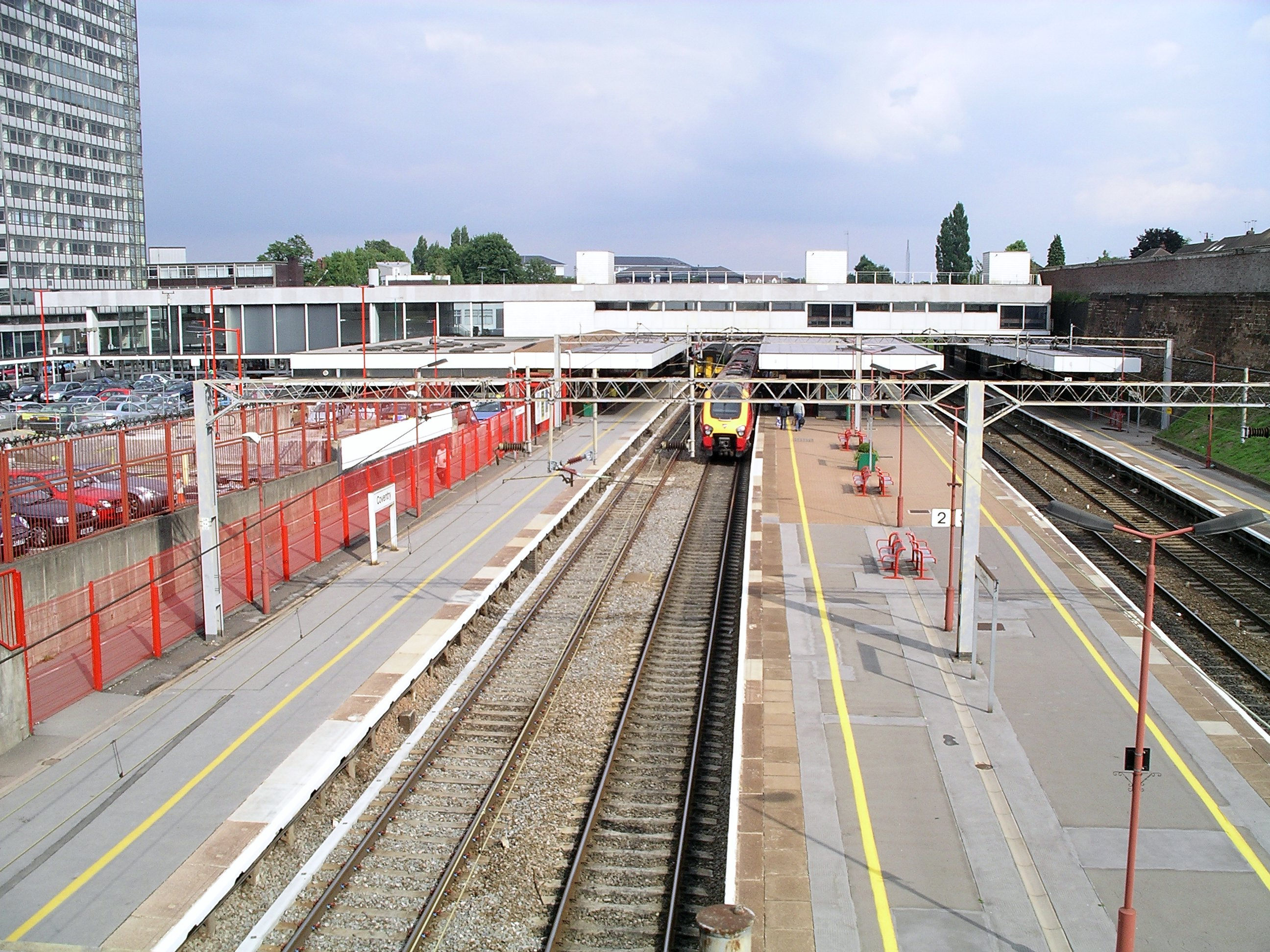 Coventry railway station viewed from the A429 Warwick Road bridge.